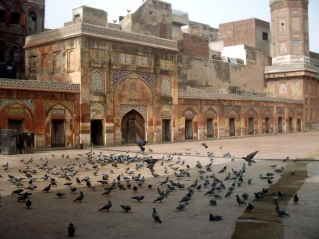 Entering the mosque, looking left Picture taken by Pale blue dot on June 21, 2004.